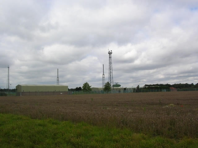 RAF Neatishead Soon to be closed as an active RAF base. This is a radar installation and has a museum on the site detailing the history of radar.